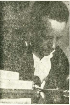 France Pibernik